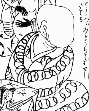 Noppera-bō (のっぺらぼう, faceless ghost) from the Bakemono Shiuchi Hyōbanki (妖怪仕内評判記)